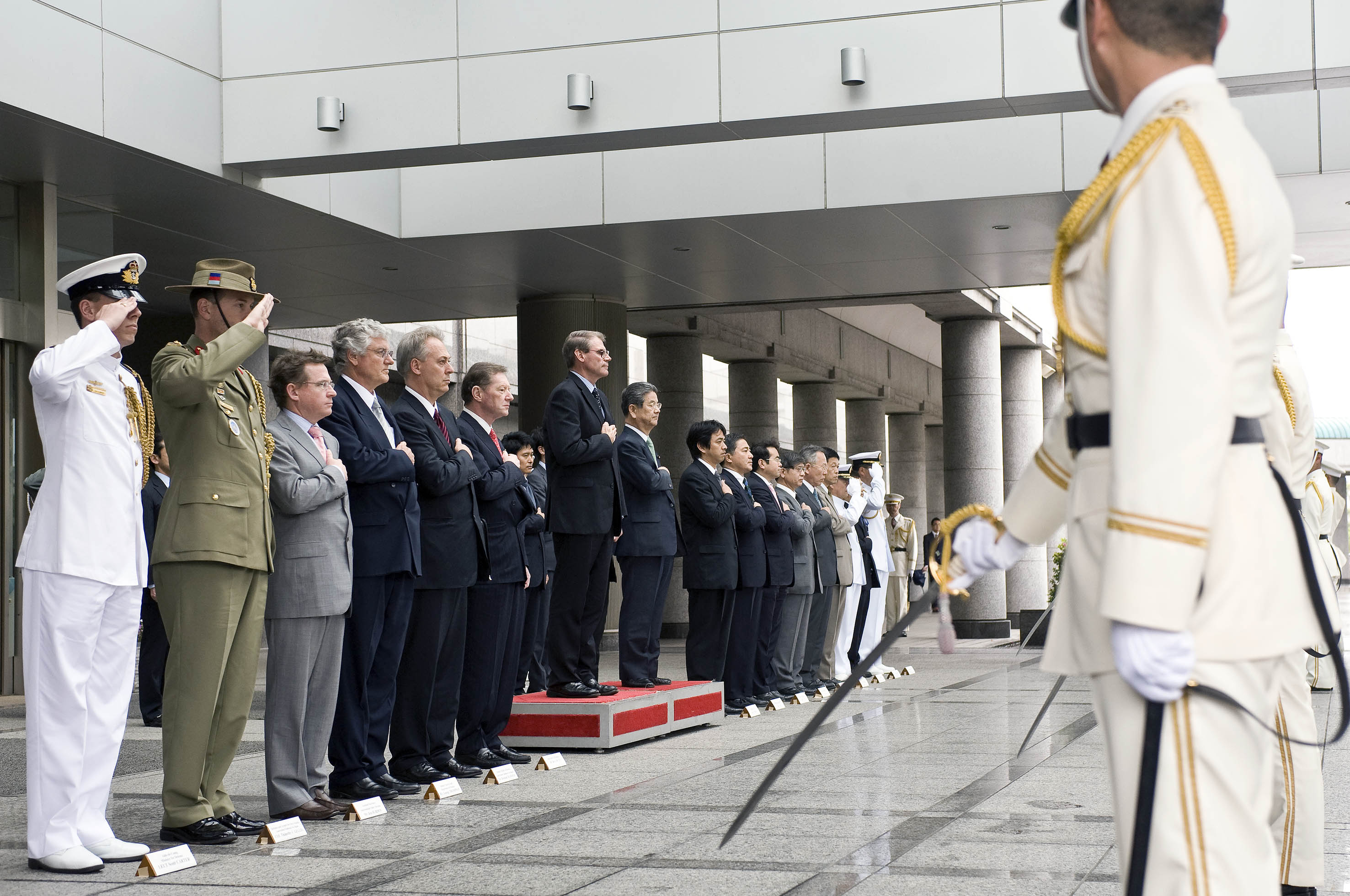 Minister for Defence, John Faulkner and Japan Defense Minister Toshimi Kitazawa along with other high ranking officials attend an honour guard ceremony at the Ministry of Defense in Tokyo on 19 May, 2010.